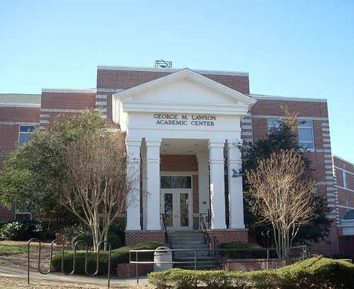 George M. Lawson Academic Building